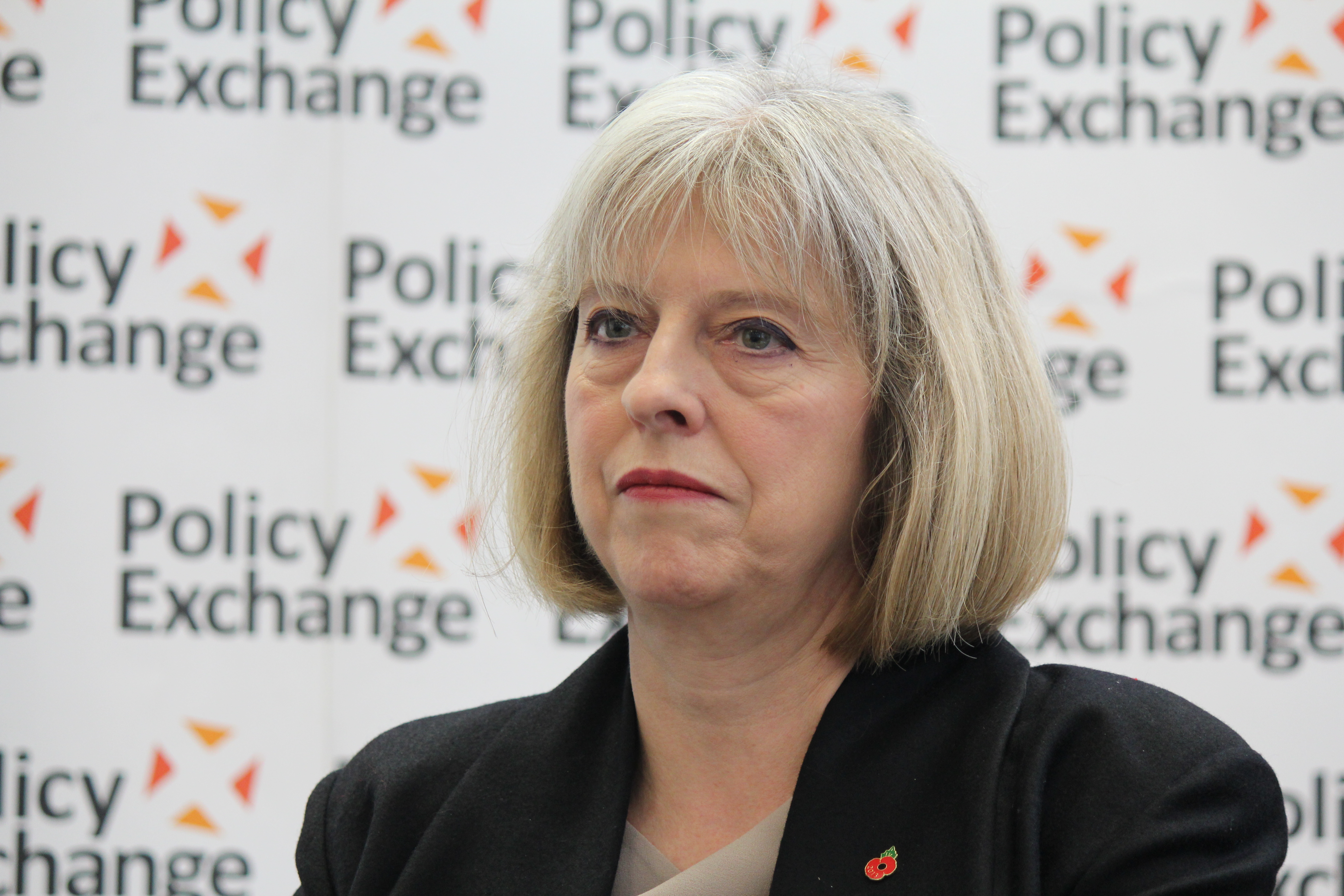 Rt Hon Theresa May MP, Home Secretary, at 'The Pioneers: Police and Crime Commissioners, one year on'